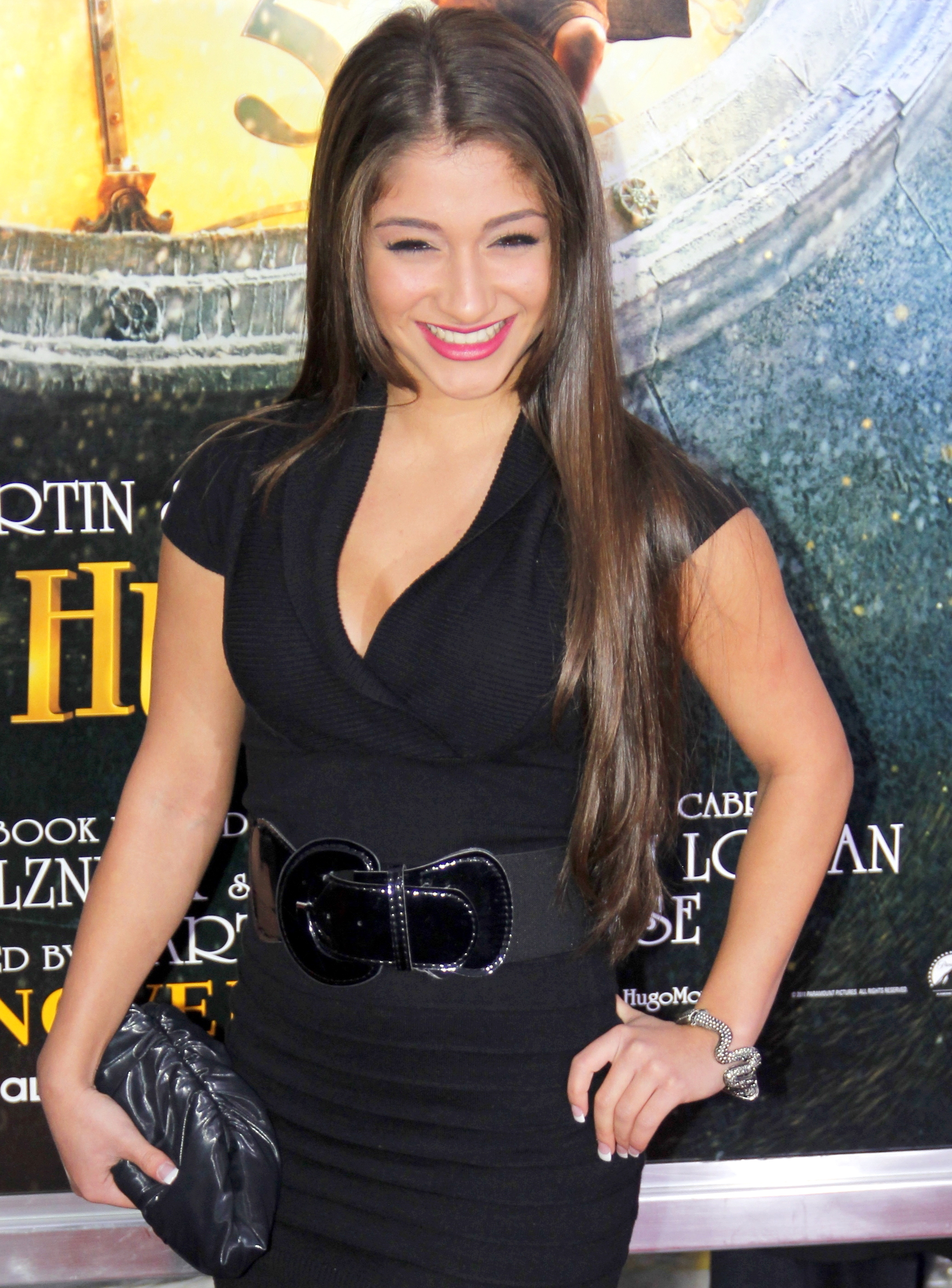 Raquel Castro at the Hugo Premiere, New York City 2011.